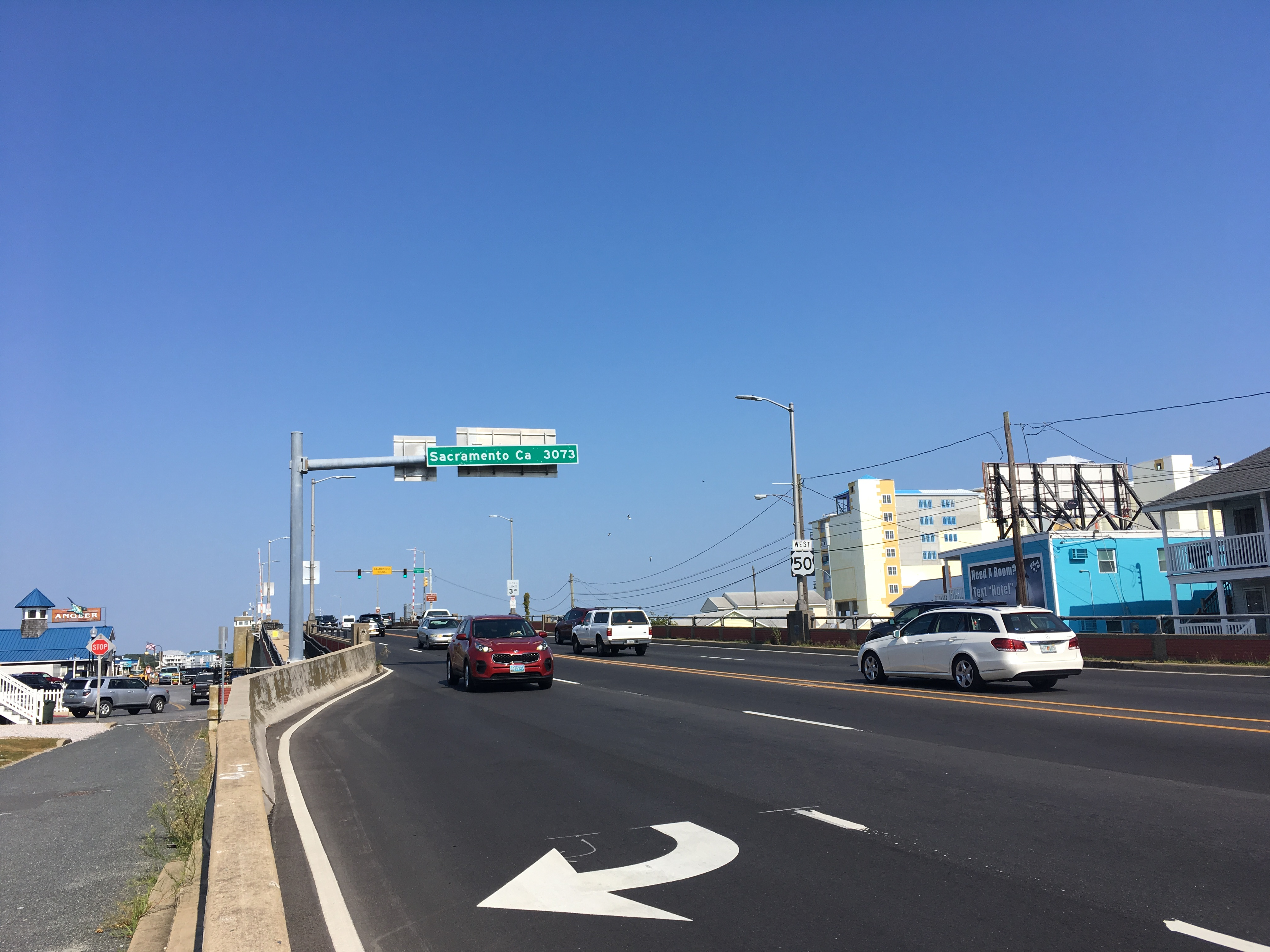 Westbound U.S. Route 50 (Ocean Gateway) past the intersection with Maryland Route 528 (Philadelphia Avenue) in Ocean City, Maryland. An overhead sign lists the distance to the western terminus of U.S. Route 50 in Sacramento, California.